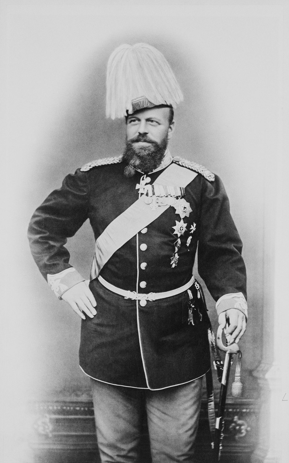 Tsar Alexander III in Danish Uniform